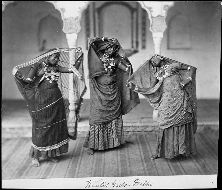 Three Nautch girls dancing in costume, by Charles Shepherd